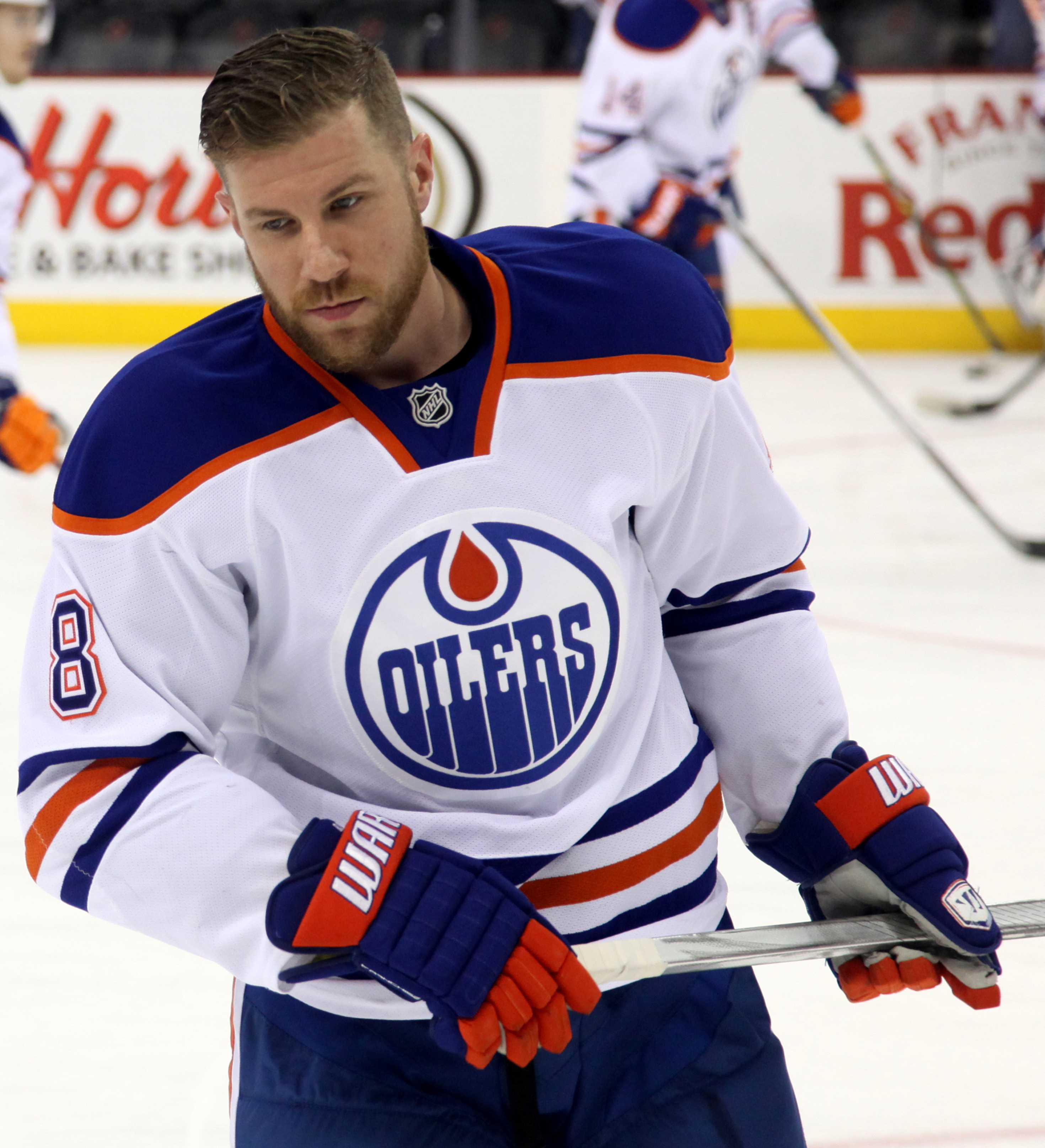 Roy in February 2015.